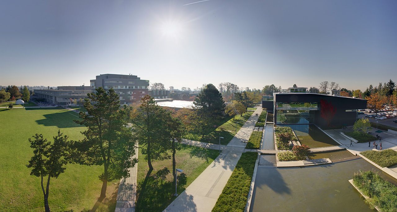 Langara Overview